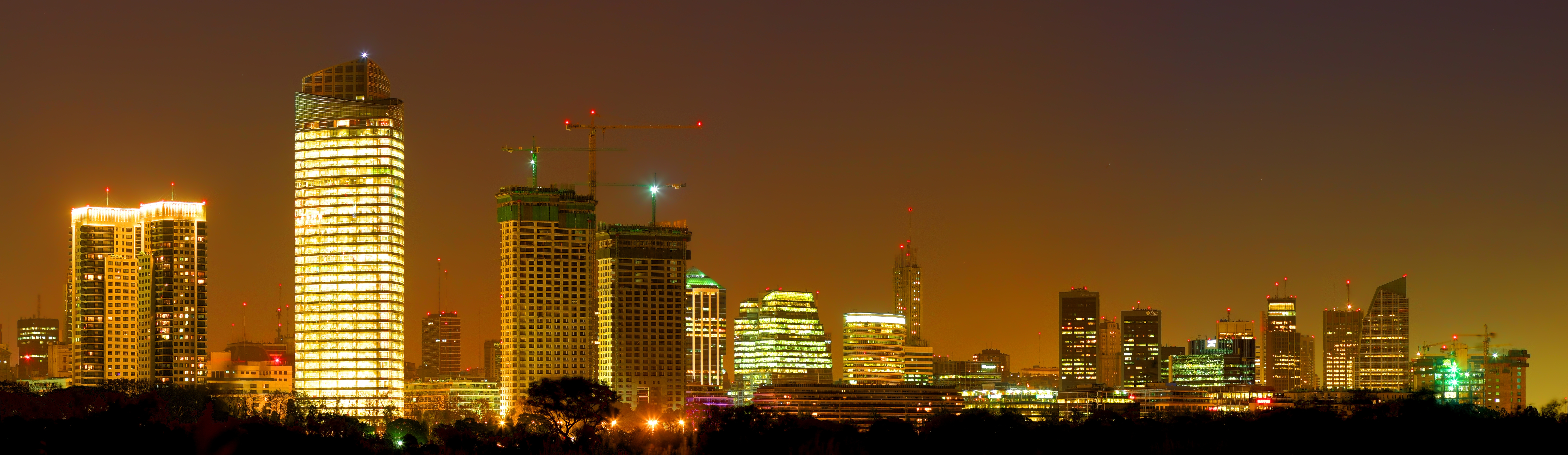 Panorama of the Buenos Aires' barrio (i.e. district) of Puerto Madero, seen from the Buenos Aires Ecological Reserve at night.